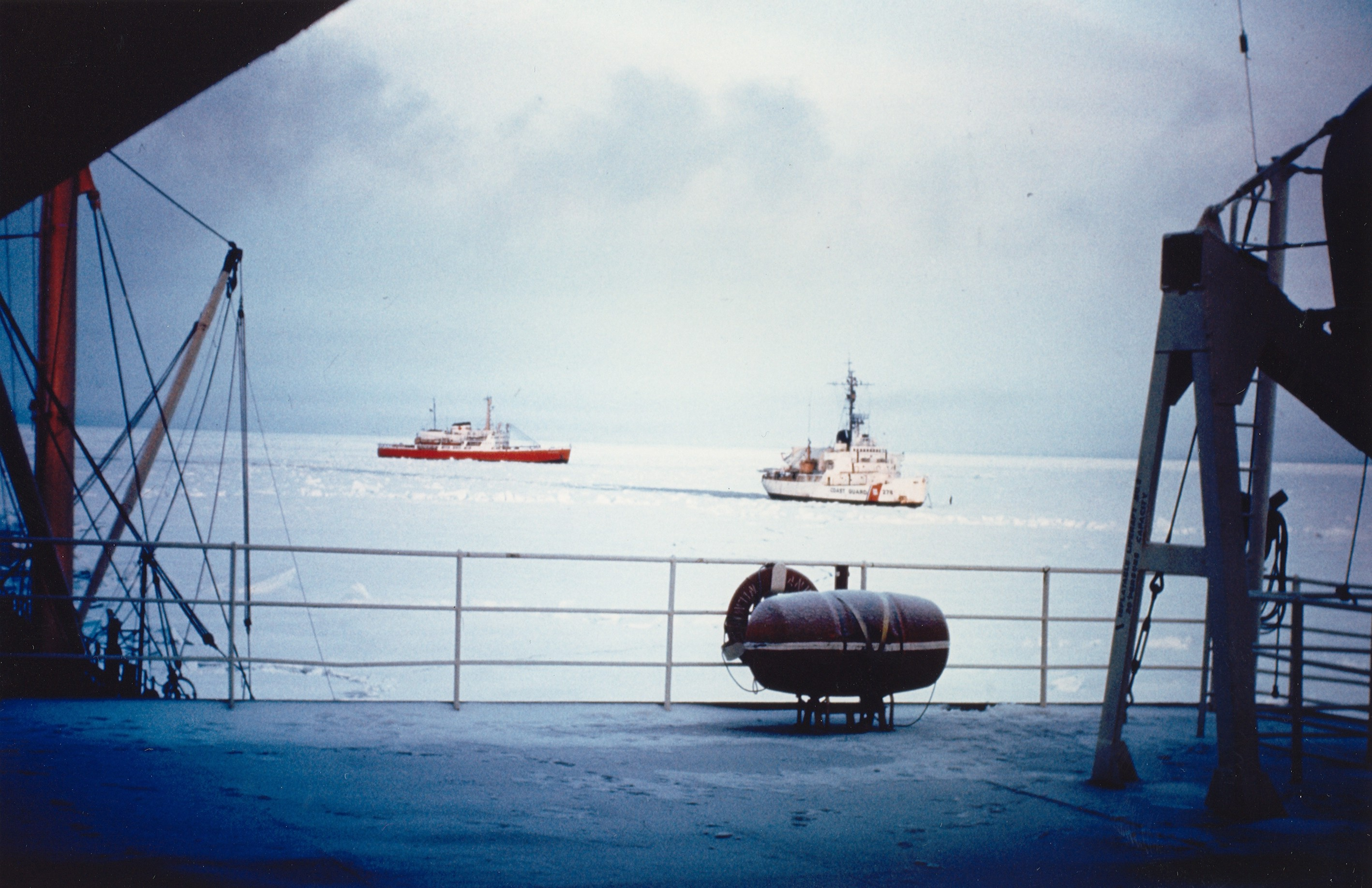 No caption; no date listed; no photo number; photographer unknown. USCGC Staten Island (WAGB-278) and Canadian icebreaker CCGS John A. MacDonald escort the tanker SS Manhattan through the Northwest Passage, September through December of 1969. Photograph taken from USCGC Northwind (WAGB-282) Official U.S. Coat Guard Photograph